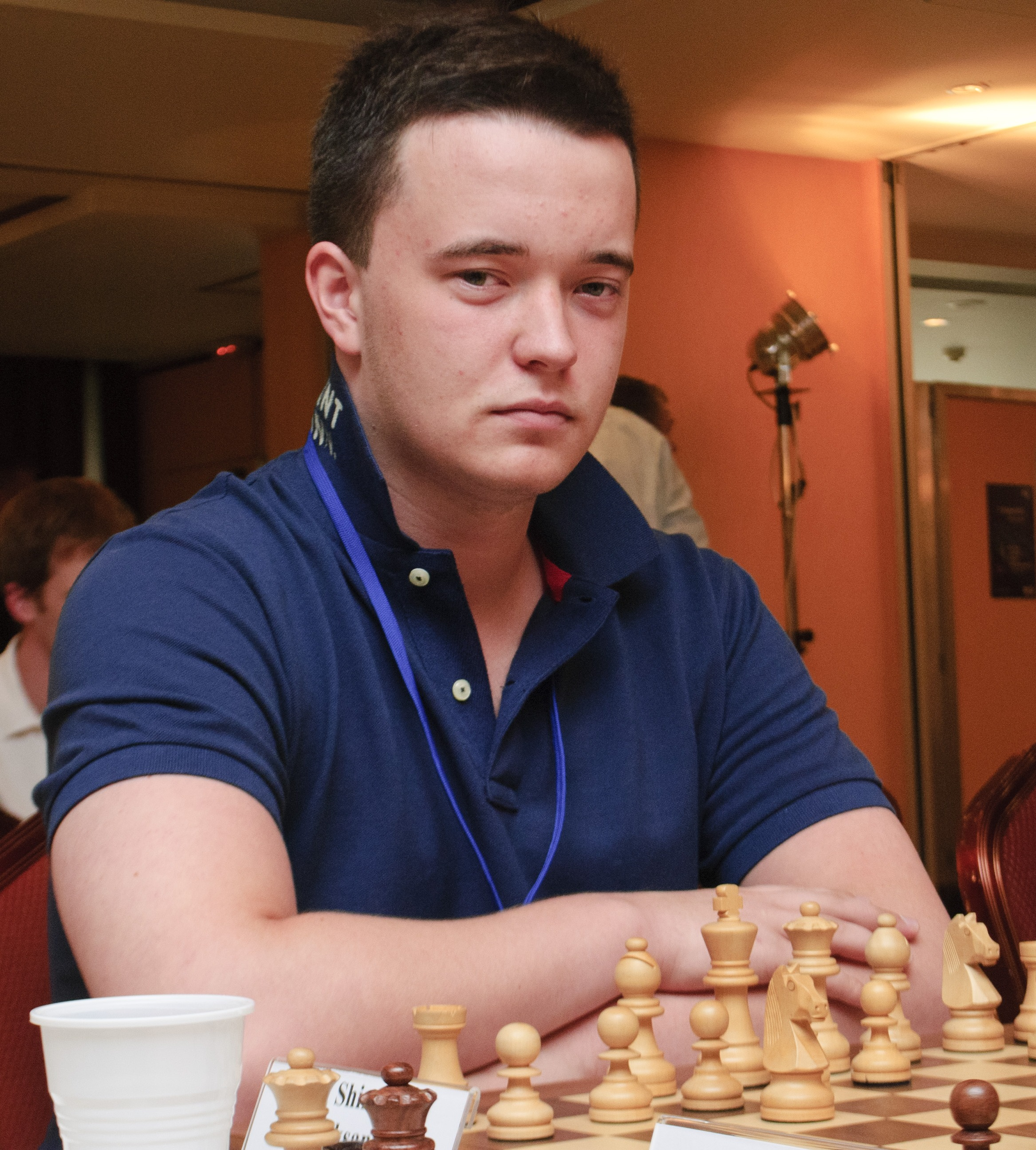 GM Shimanov Aleksandr, WChJ Athens 2012